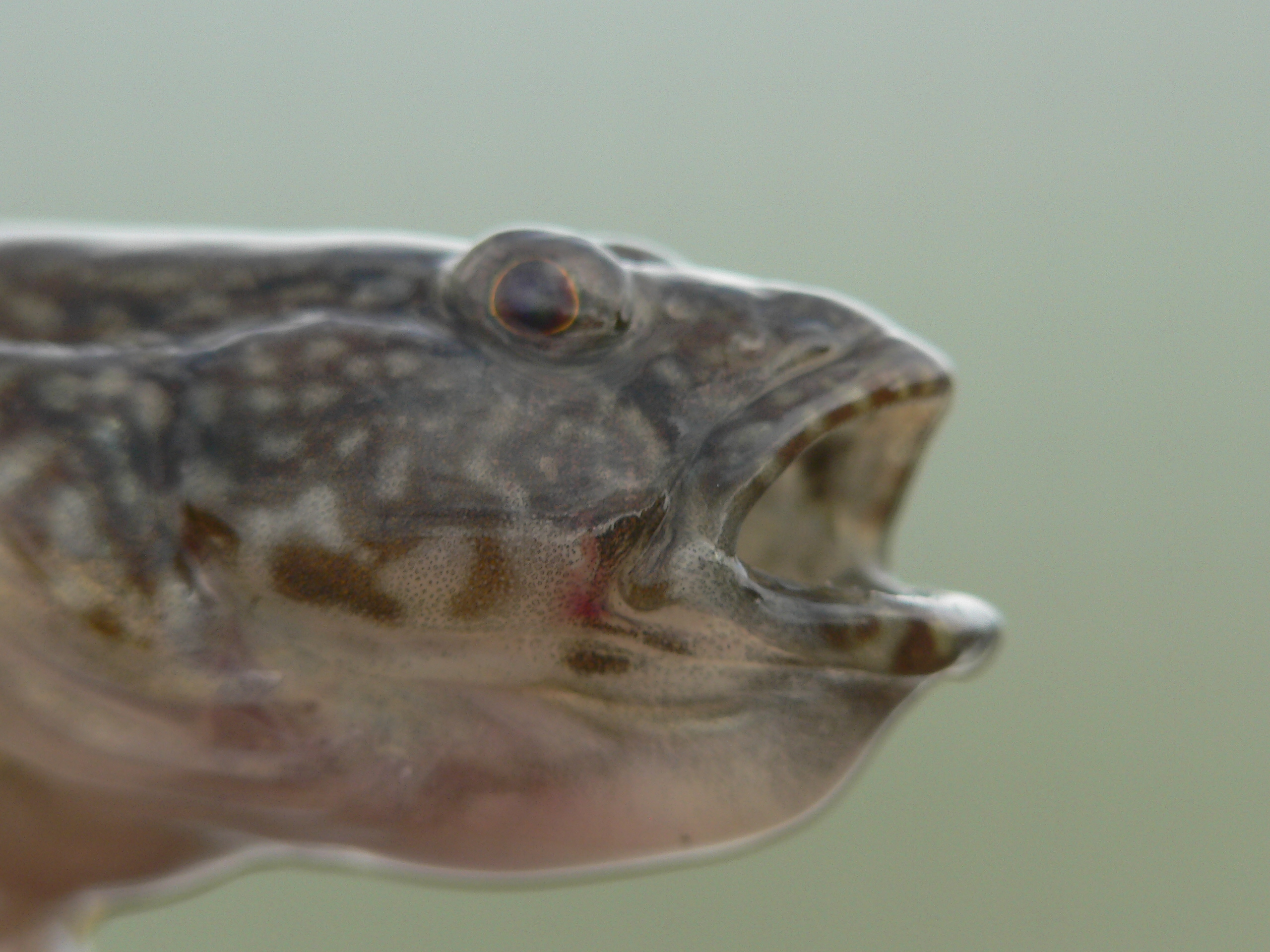 The wide mouth gape of Neogobio kessleri. Neogobius kessleri an invasive species from the Danube here in the river Rhine at Arnhem.